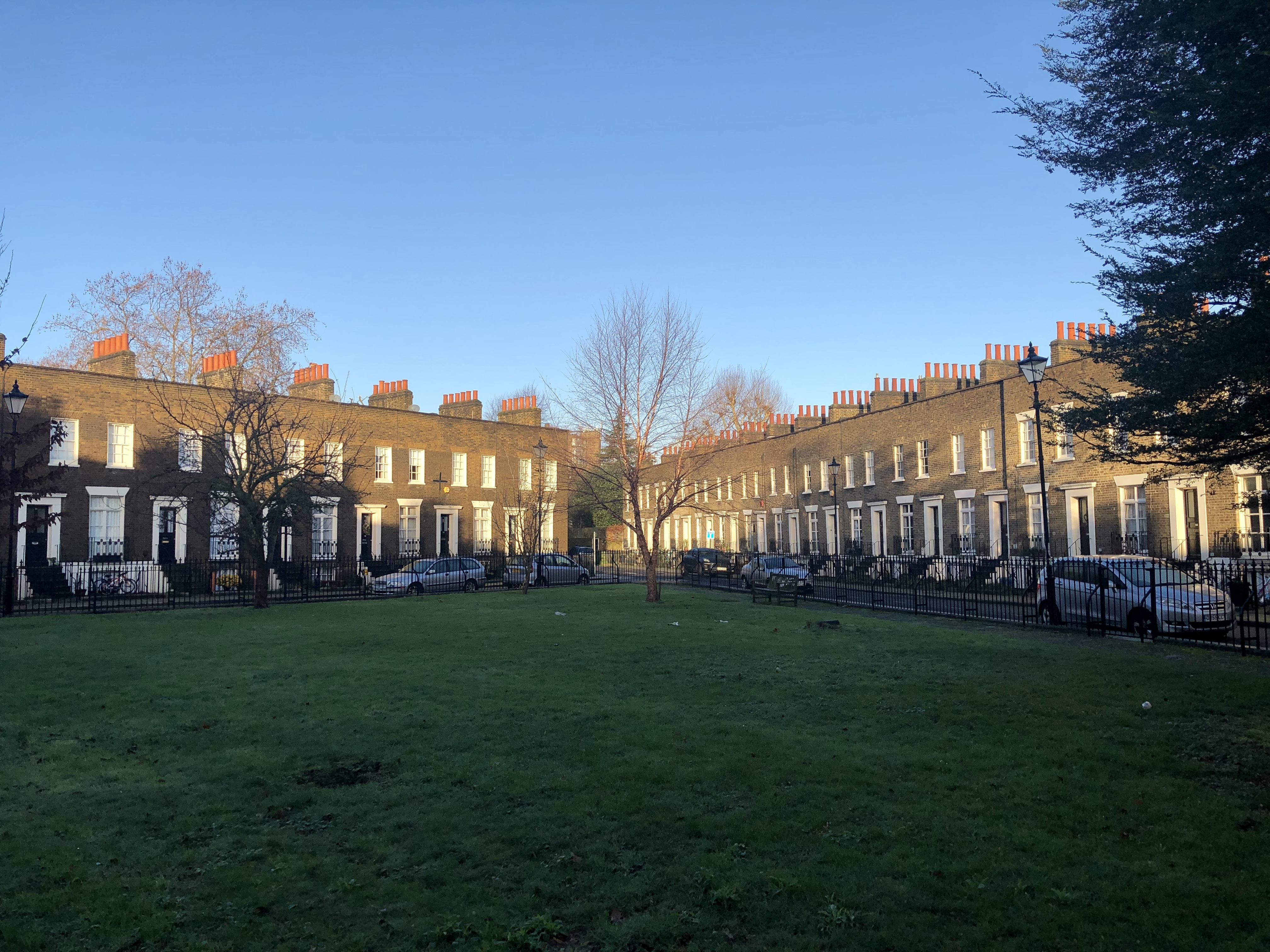 Walcot Square viewed from the south.